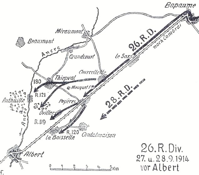 Diagram of the advance of the 26th and 28th Reserve divisions 27-28 September 1914